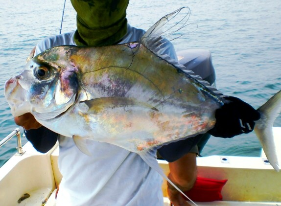 Taken off Honiara